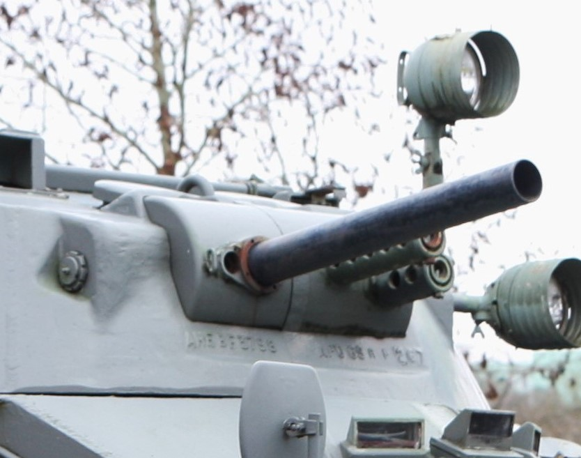 Cropped version of a previous Commons image. Panhard AML-60 armoured car turret. Cropped to produce a more relevant image for the specific vehicle depicted. Limited contextual relevance to original work.